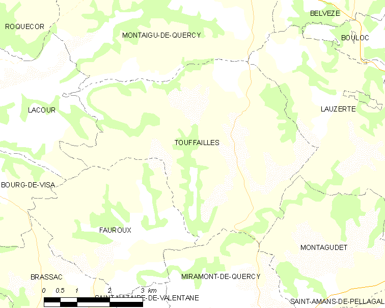 Map of French municipality Touffailles